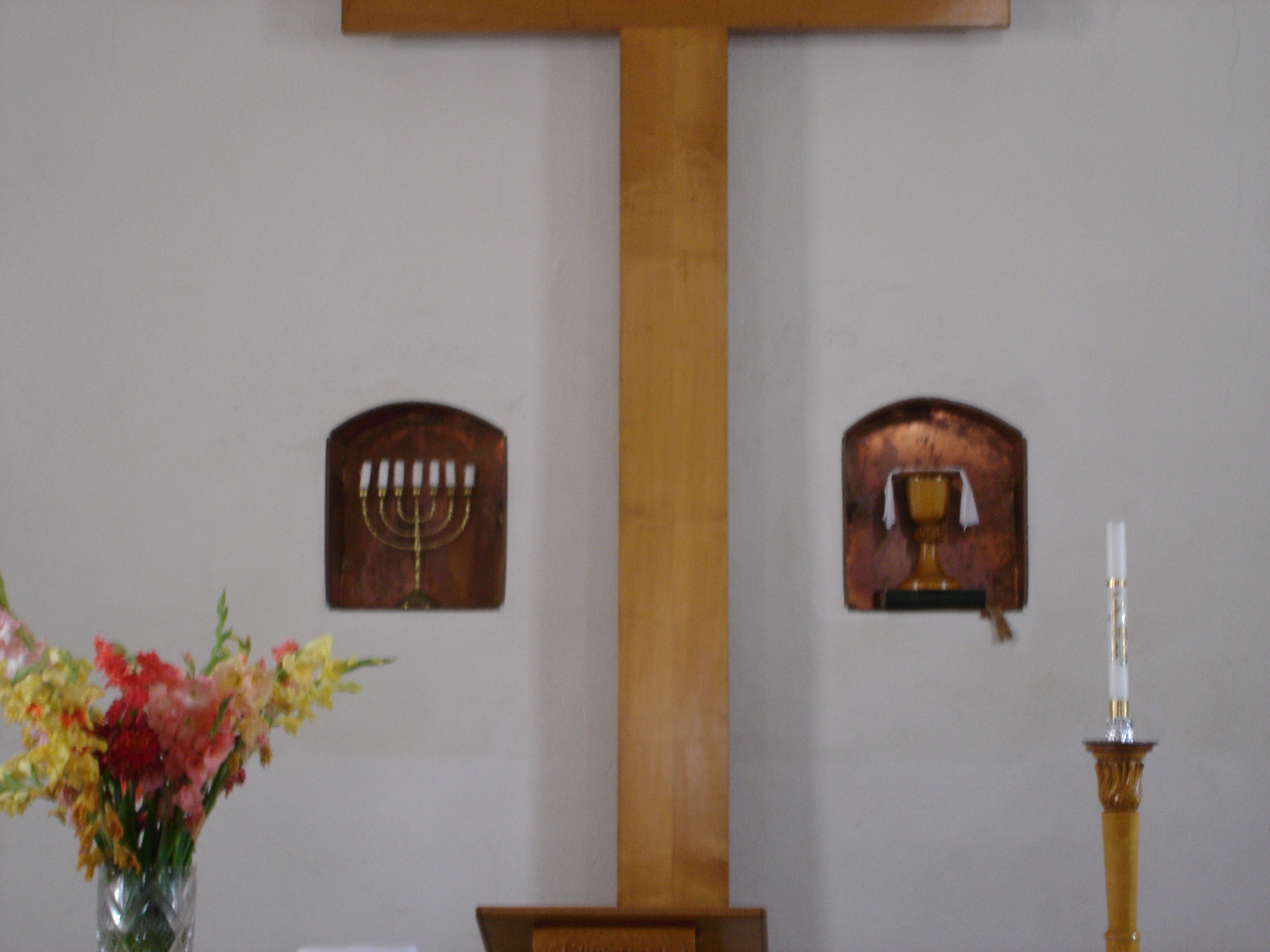 Old (Front) synagogue in Třebíč jewish quarter. Interier with saint symbols.